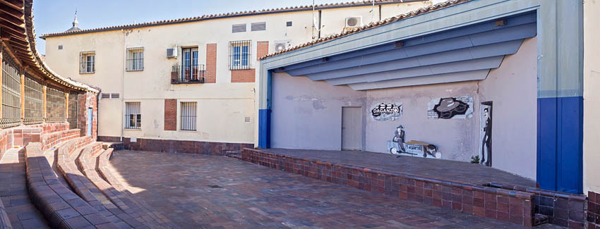 Anfiteatro Enrique Tierno Galván